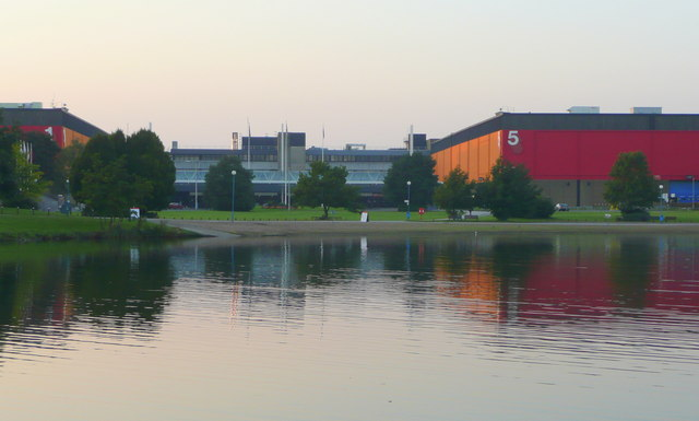 Birmingham National Exhibition Centre The main entrance viewed from across the ornamental lake on a September evening.